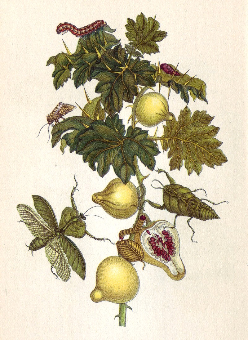 Illuminated Copper-engraving from Metamorphosis insectorum Surinamensium, Plate XXVII. Musa paradisiaca, 1705